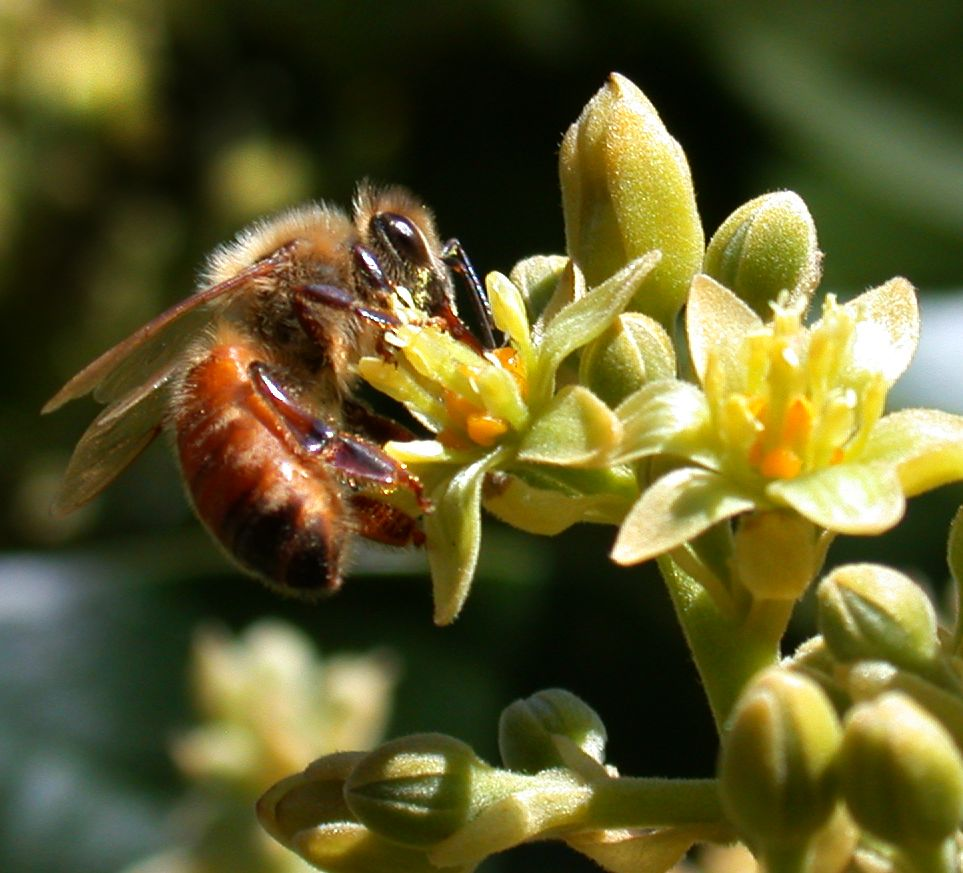 Honey bee (Apis mellifera) pollinating Avocado cv. Zutano (Persea americana) flower